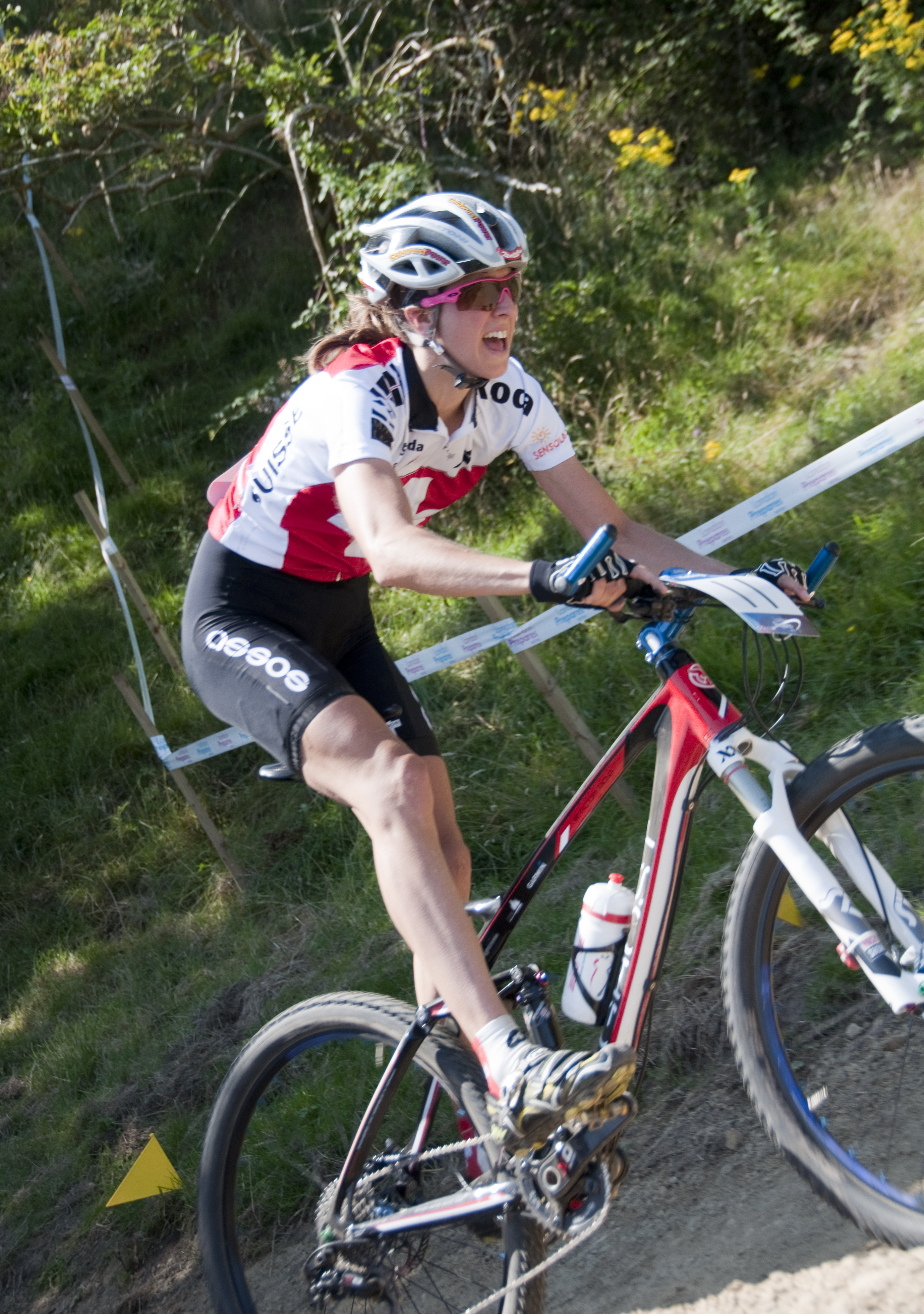 On the 2012 Mountain bike course